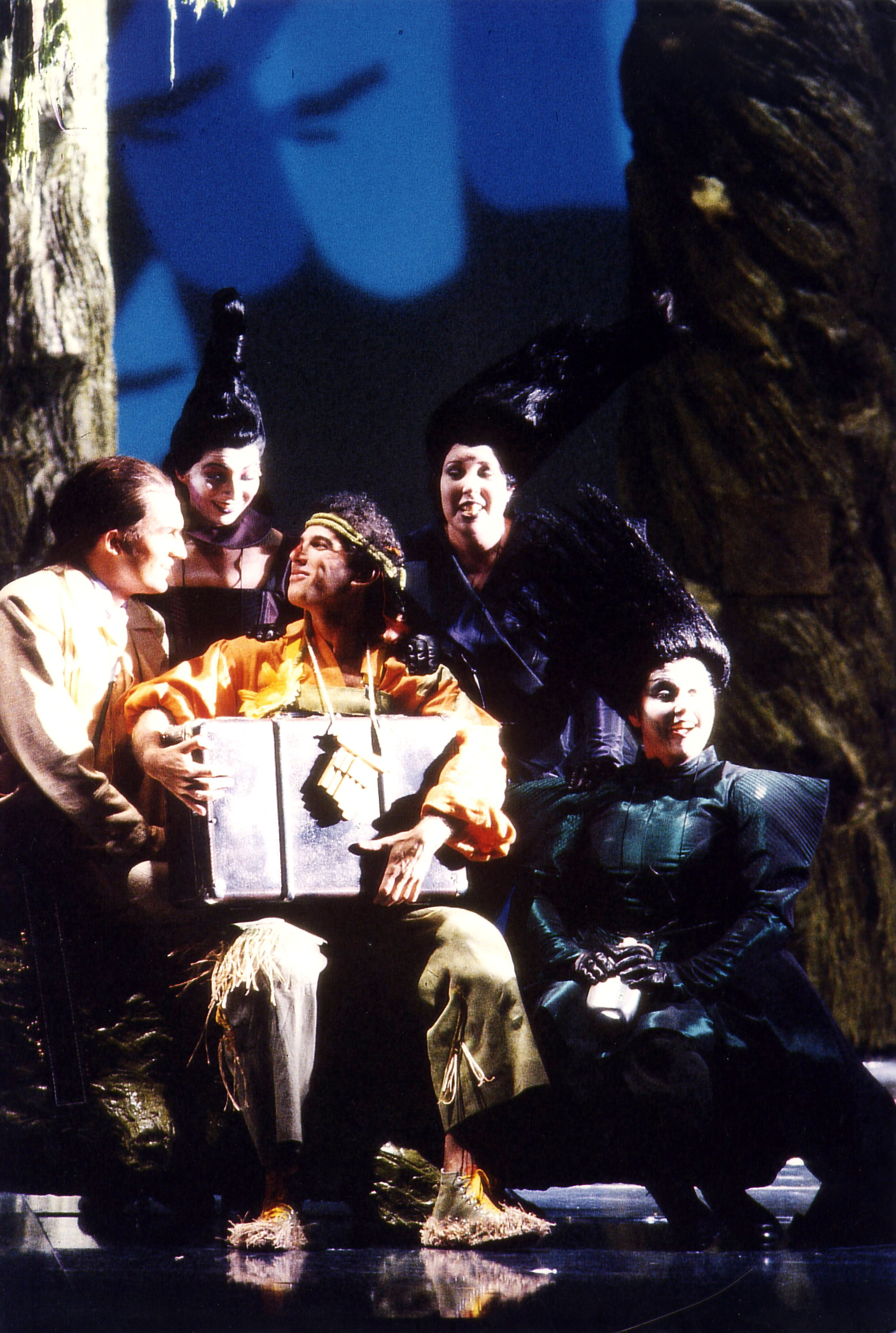 Udo Scheuerpflug (Tamino), Liat Himmelheber (second lady), Yaron Windmüller (Papageno), Donna Morein (third lady), Marilyn Howell (first lady)